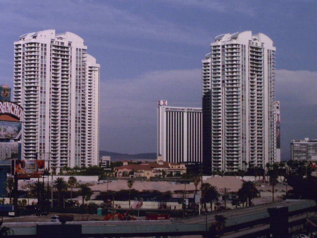 Turnberry Place towers in Las Vegas, Nevada